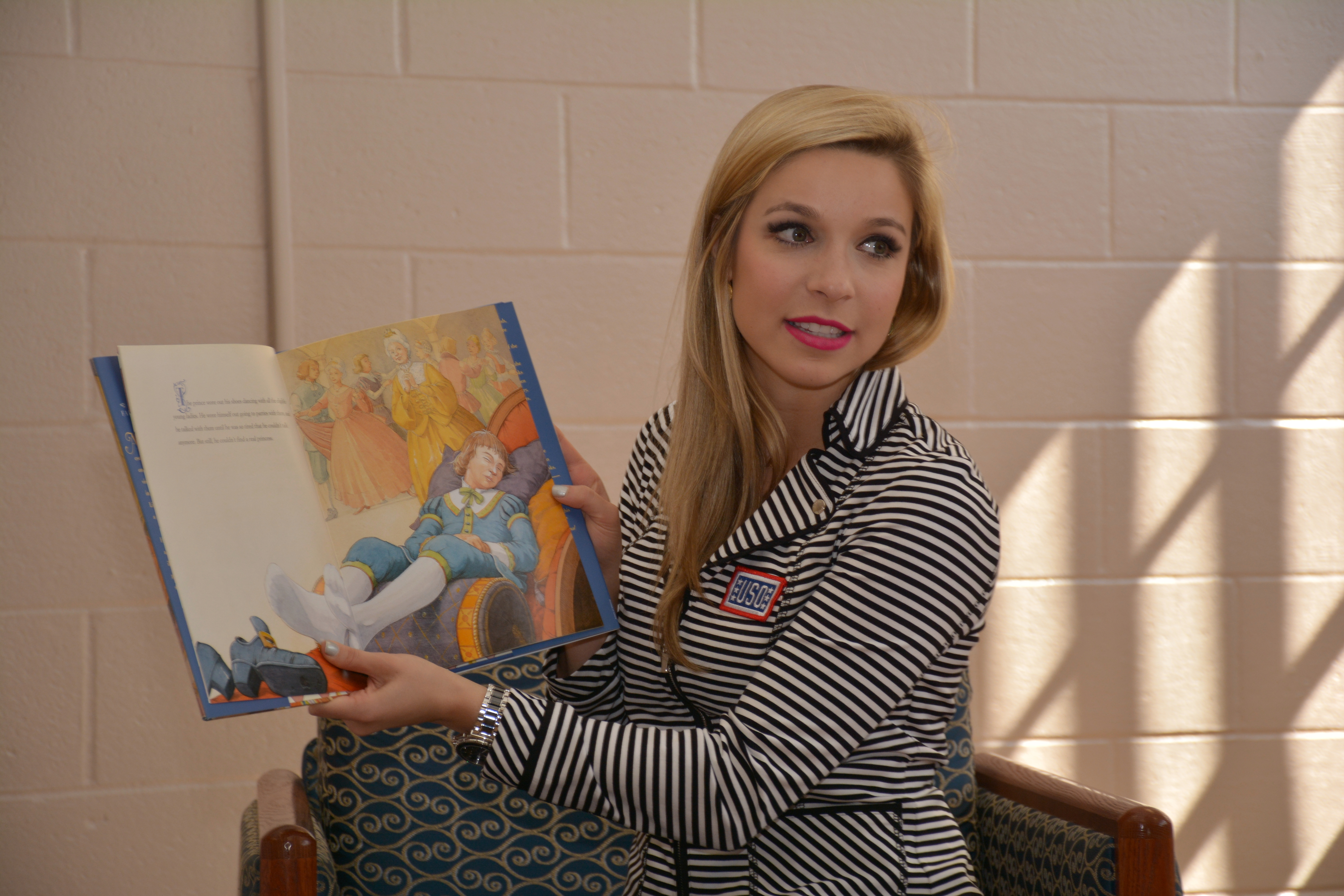 Miss America Kira Kazantsev reads to children living at Aberdeen Proving Ground.